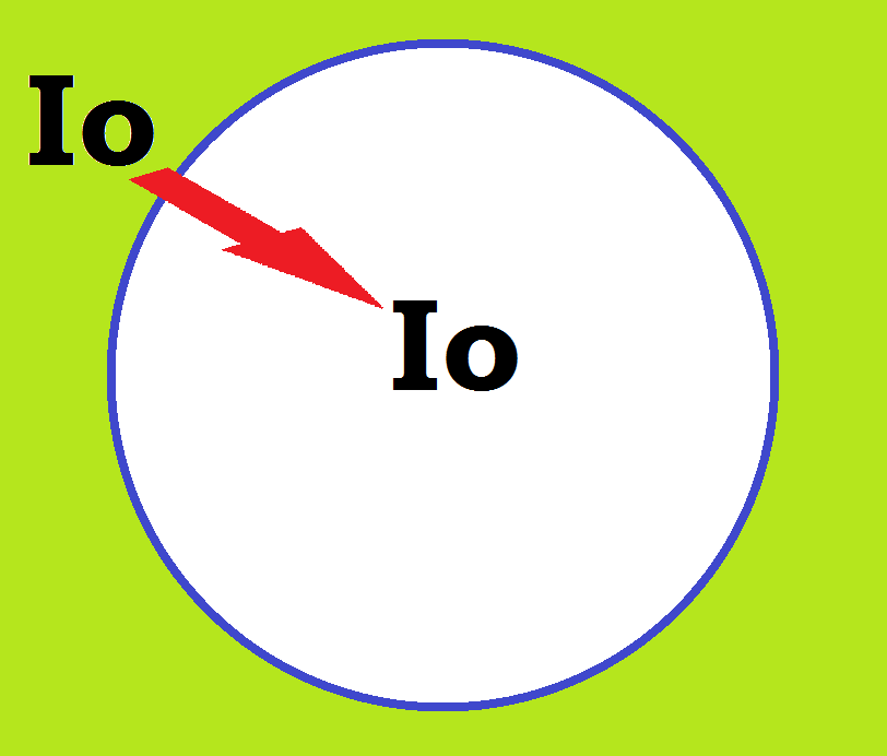 Diagram of the first principle in the Fichte's doctrine